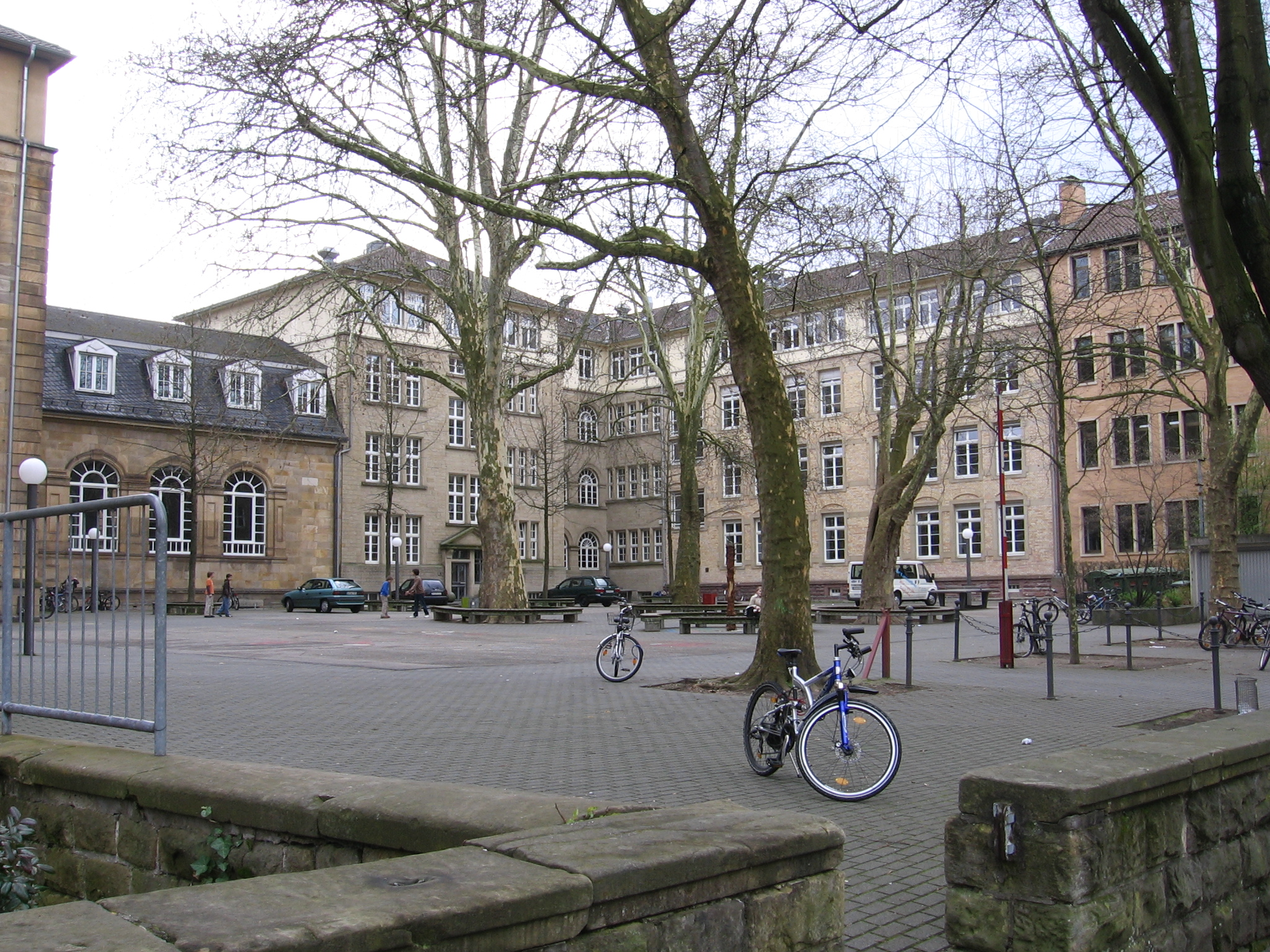 The Markgrafen-Gymnasium (MGG; a German school) in Karlsruhe-Durlach, Baden-Württemberg, Germany. The foto is taken standing on the Karl-Weisser-Straße